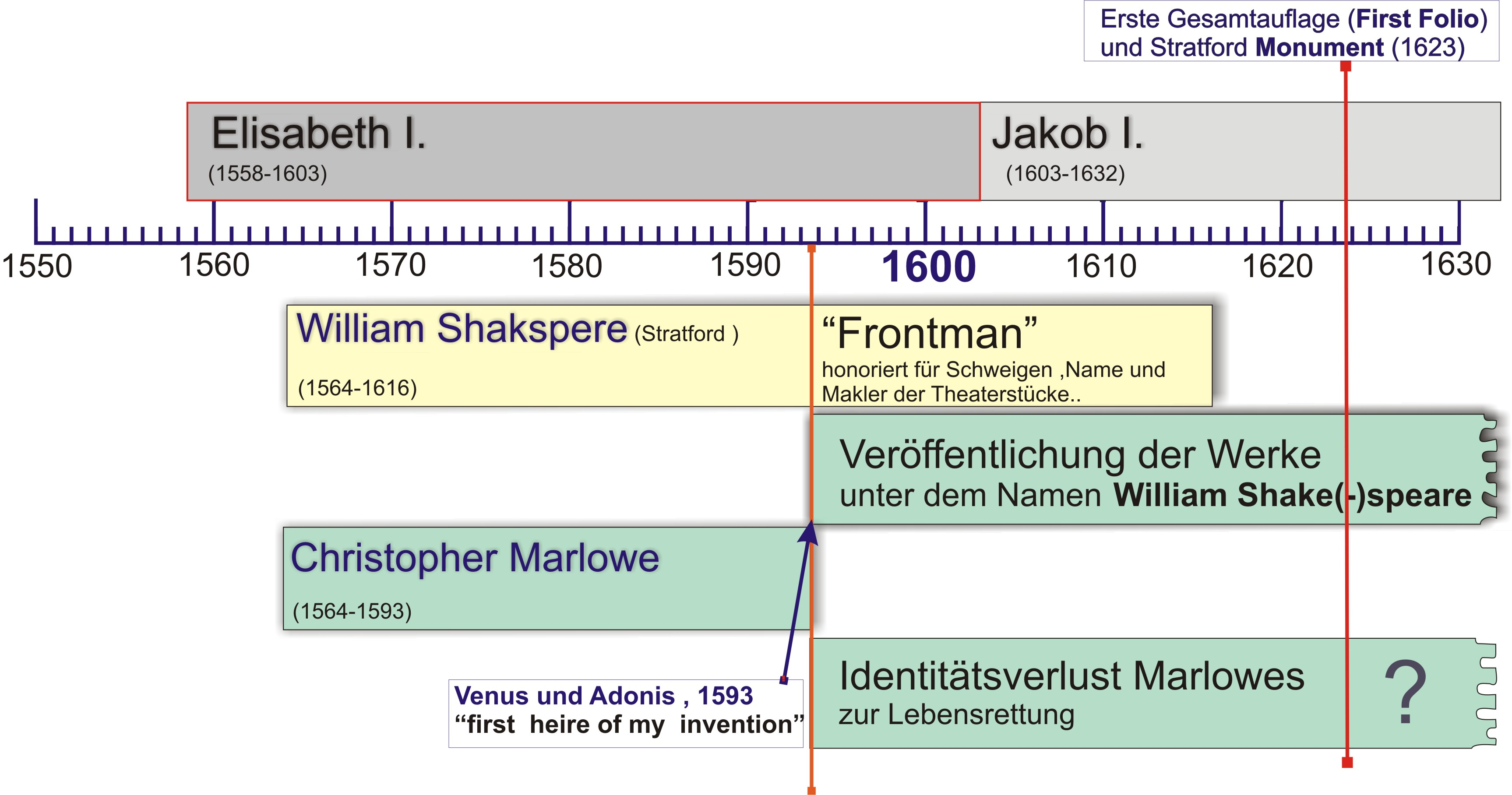 timetable concerning the theory of marlowe-shakespeare authorship